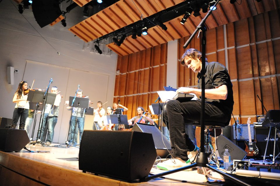 Christopher Tignor performing live with A Far Cry string orchestra at Merkin Hall, NYC, 2012